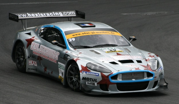 Aston Martin Racing DBRS9 at Norisring race track, Germany